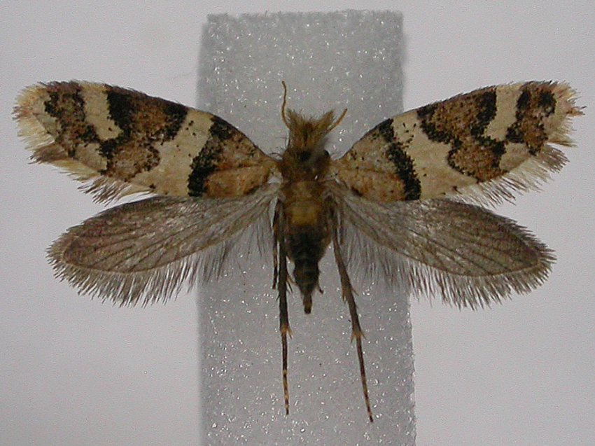 Sabatinca lucilia, Micropterigidae